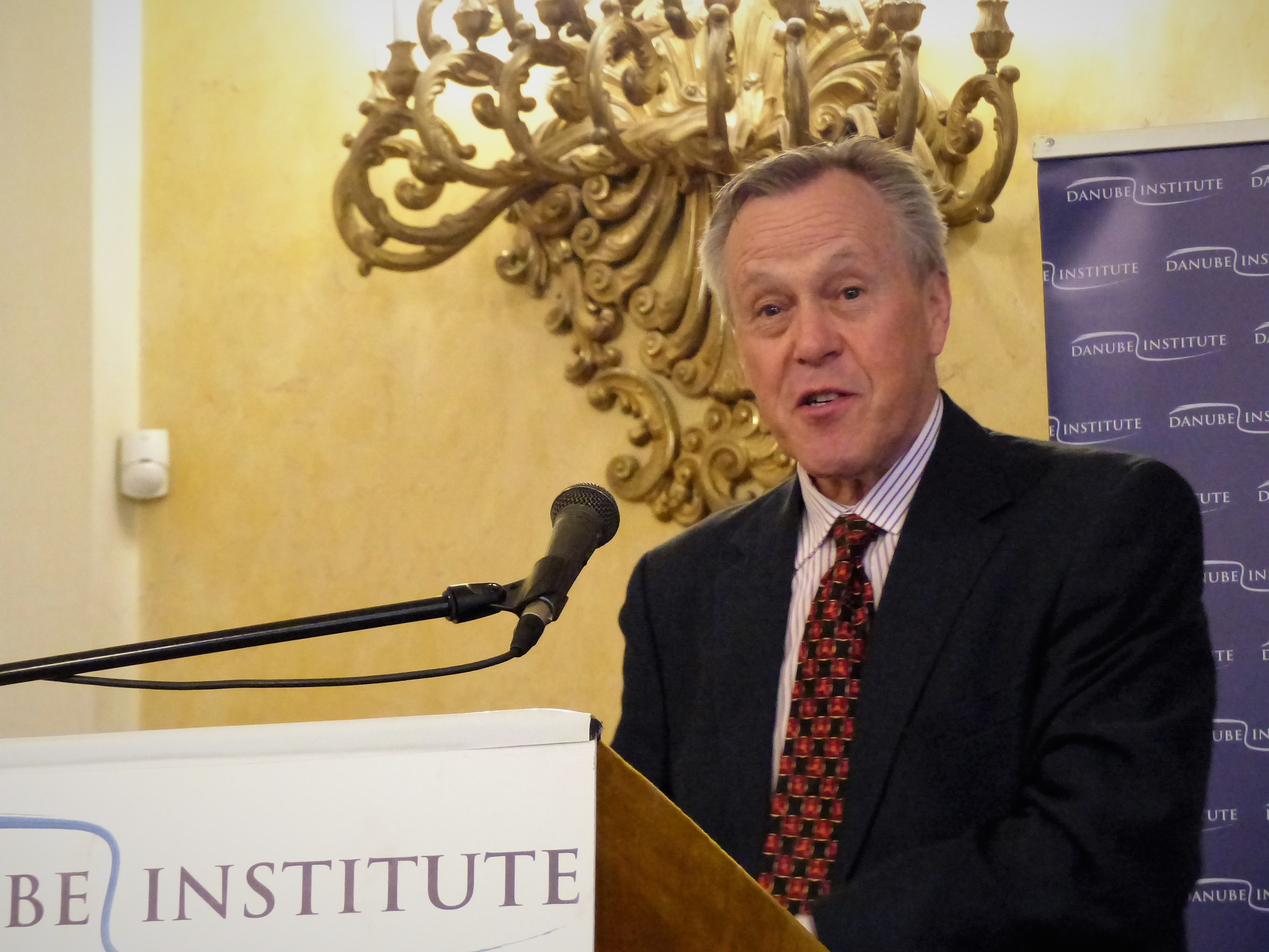 Charles Crawford delivered a lecture at Danube Institute, Budapest, Central Europe. What if International Borders Just Melt? On the 7th of March, 2019.